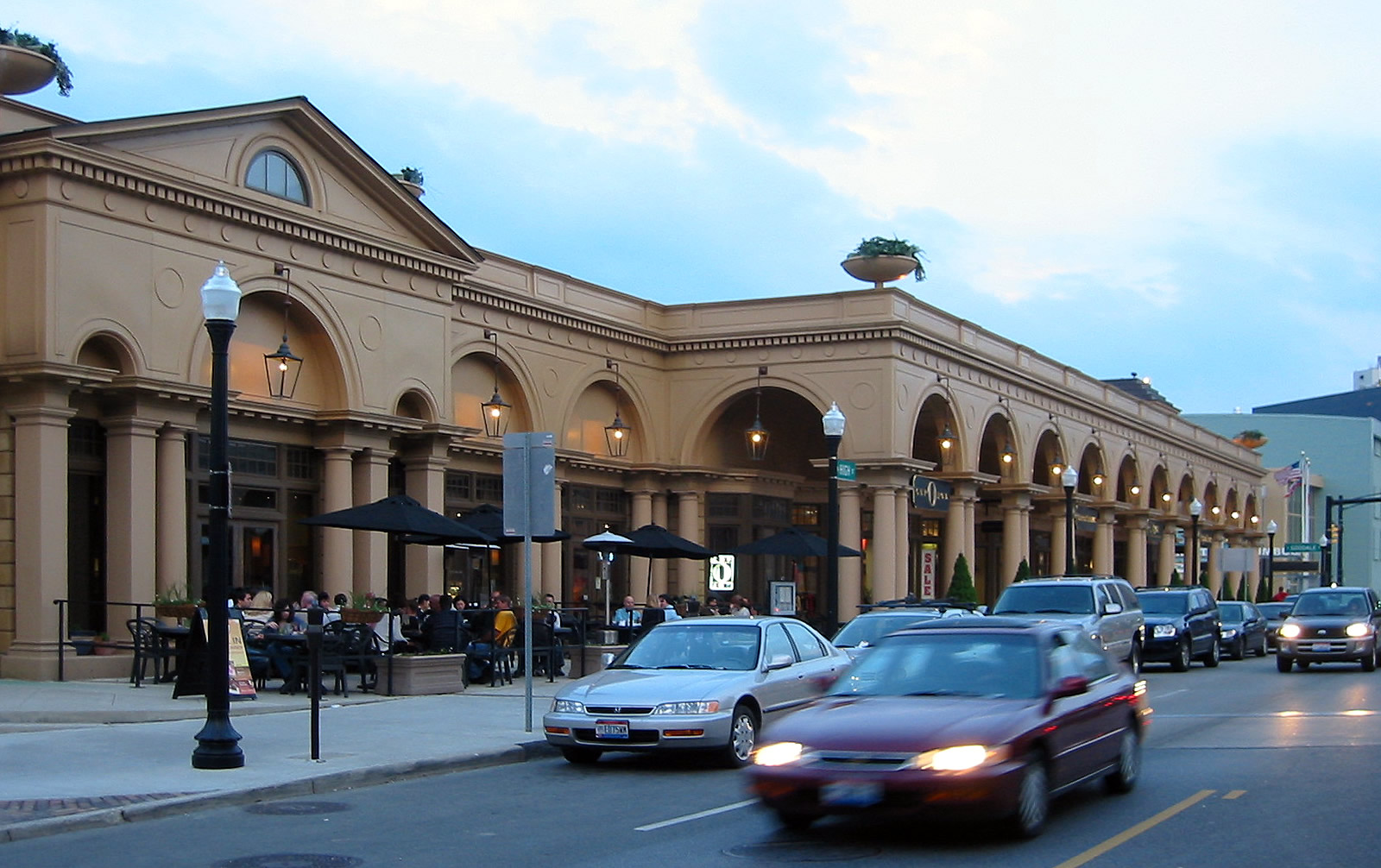 The Cap at N. High street over I-670, in the Short North district of Columbus. Underneath these buildings runs 10 lanes of Interstate 670.